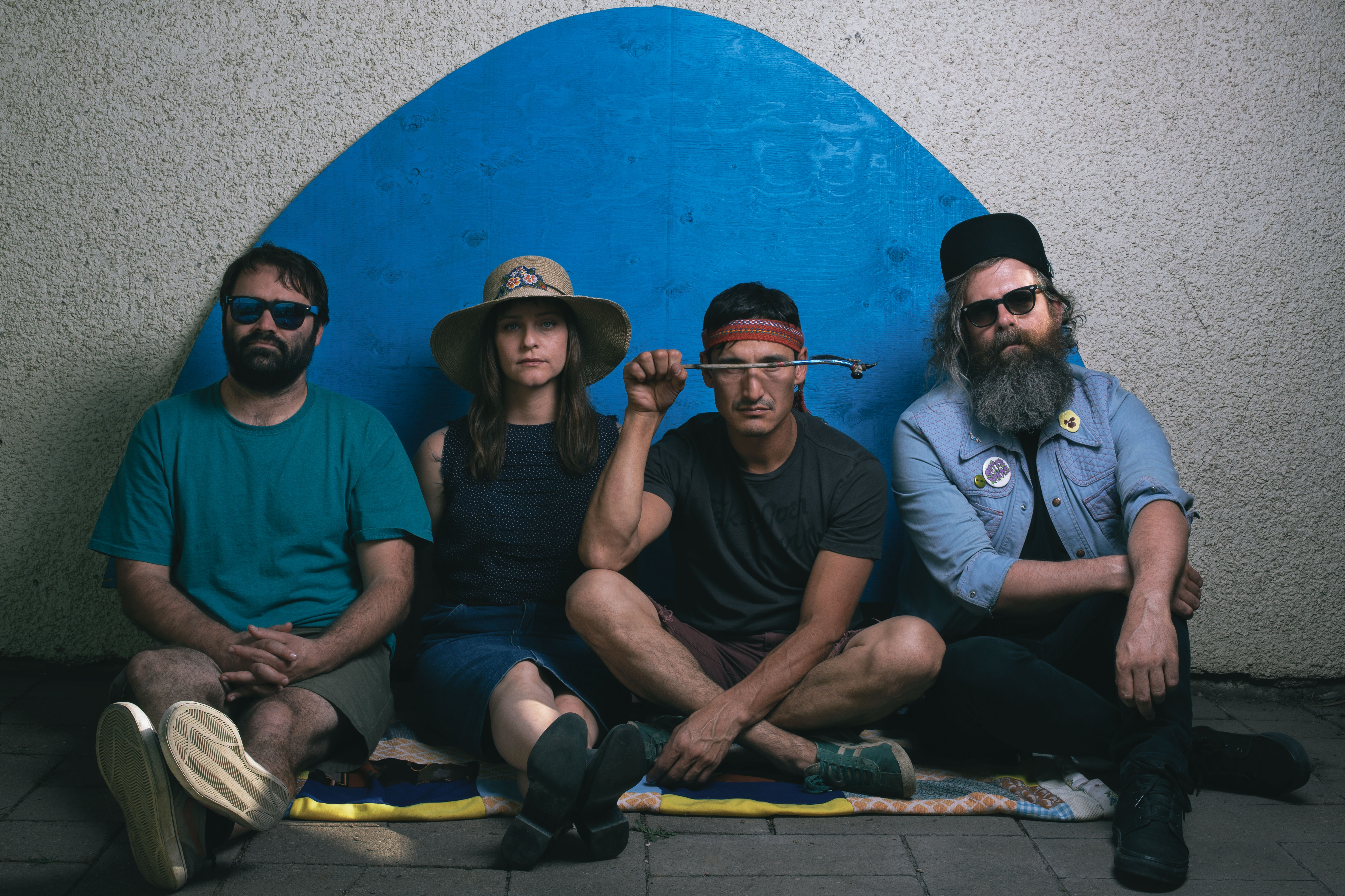 Photo by Blair Russel